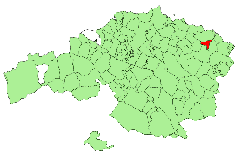 Gizaburuaga municipality in the province of Biscay